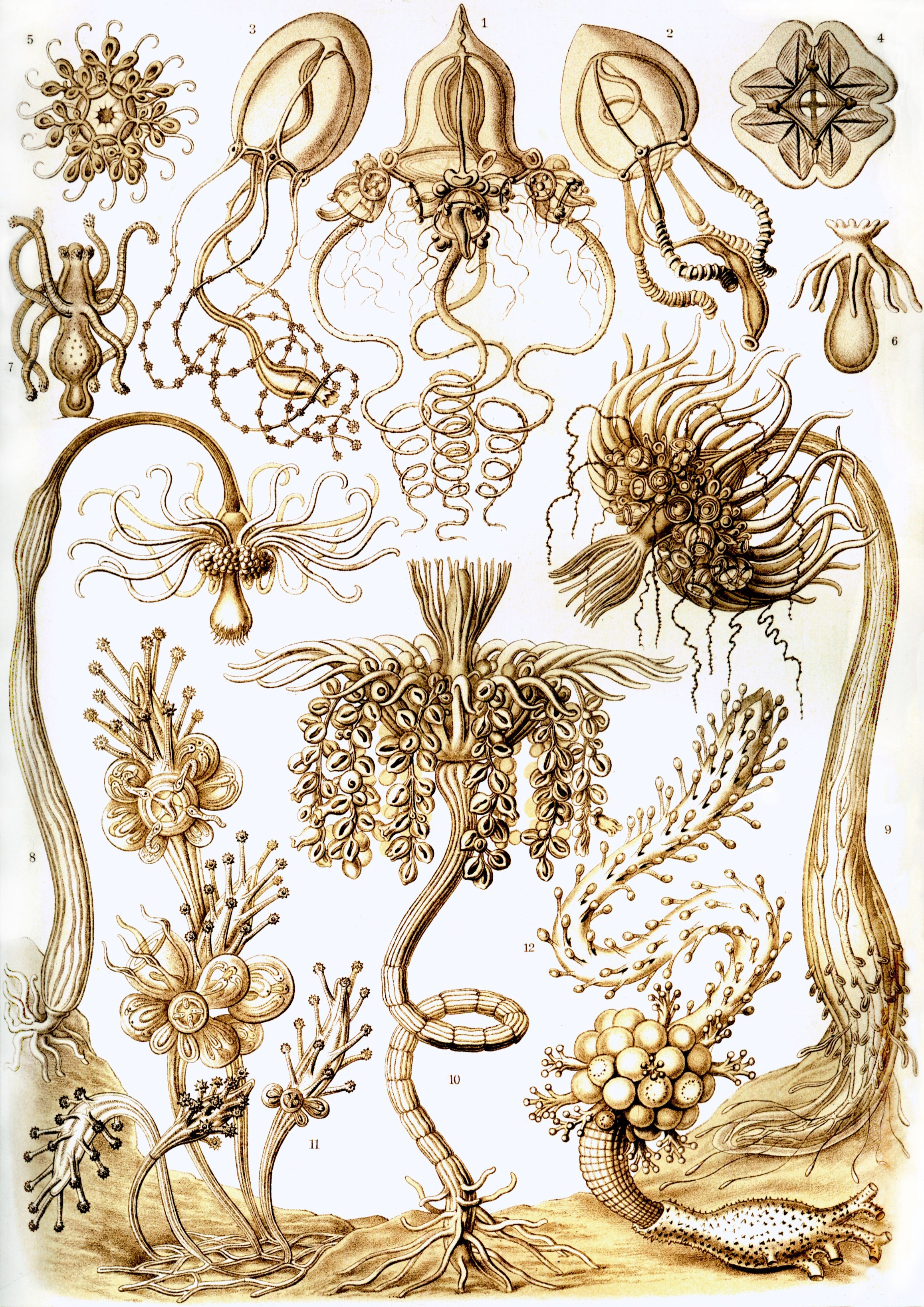 (top center): Codonium codonophorum (Haeckel) = Coryne prolifera (Forbes, 1848), medusa budding off medusae = Codonium proliferum (top, right of center): Dipurena dolichogaster (Haeckel) = Dipurena ophiogaster (Haeckel, 1877), medusa = Stauridiosarsia ophiogaster (top, left of center): Sarsia tubulosa (Lesson) = Sarsia tubulosa (M.Sars, 1835), medusa (top right, above): Sarsia tubulosa (Lesson) = Sarsia tubulosa (M.Sars, 1835), medusa, view inside bell from below (top left, above): Thamnocnidia coronata (L.Agassiz) = Ectopleura larynx (Ellis & Solander, 1786), polyp, mouth from above (top right, below): Thamnocnidia coronata (L.Agassiz) = Ectopleura larynx (Ellis & Solander, 1786), young larva (top left, below): Thamnocnidia coronata (L.Agassiz) = Ectopleura larynx (Ellis & Solander, 1786), actinula (older larva) (left): Monocaulus pendulus (Allman) = Corymorpha pendula L.Agassiz, 1862, polyp (right): Corymorpha nutans (Sars) = Corymorpha nutans Sars, 1835, polyp budding off medusae (bottom center): Tubuletta splendida (Haeckel) = Corymorpha sp.?, polyp (bottom left): Syncoryne pulchella (Allman) = Coryne pulchella (Allman, 1865), polyp budding off medusae = Sarsia pulchella (bottom right): Myriothela phrygia (Fabricius) = Candelabrum phrygium (Fabricius, 1780), polyp